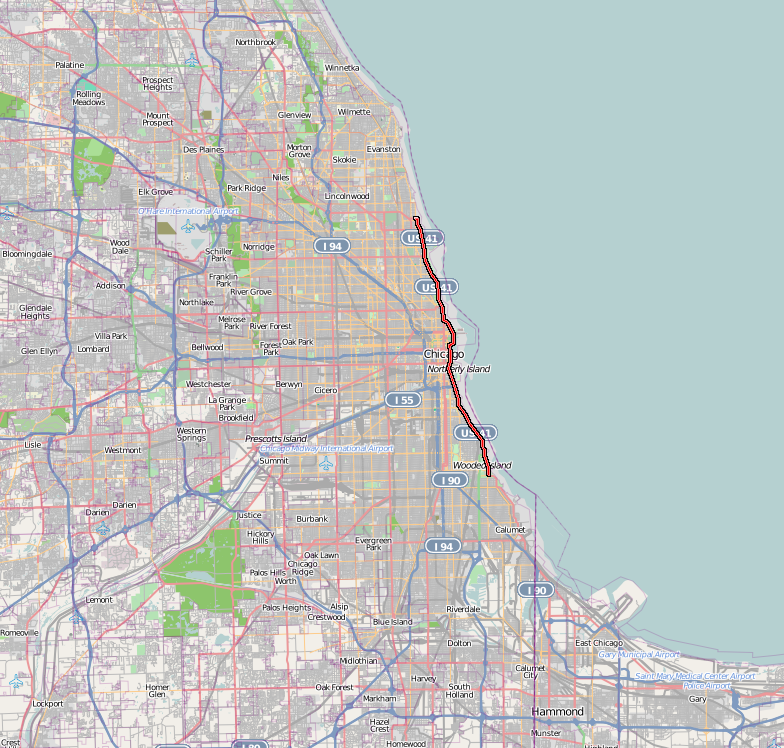 A map of Chicago, IL, and the surrounding area, highlighting Lake Shore Drive